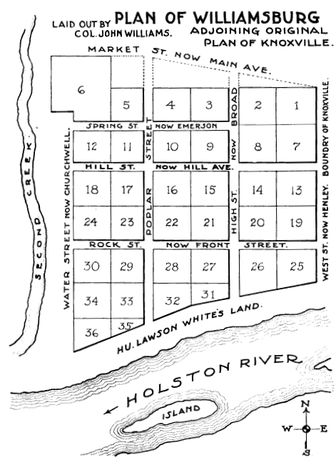 Map showing the proposed subdivision of "Williamsburg," named for Senator John Williams (1778–1837), in what is now Downtown Knoxville, Tennessee, USA. This area is now occupied by Maplehurst Park and the Church Street Methodist Church.